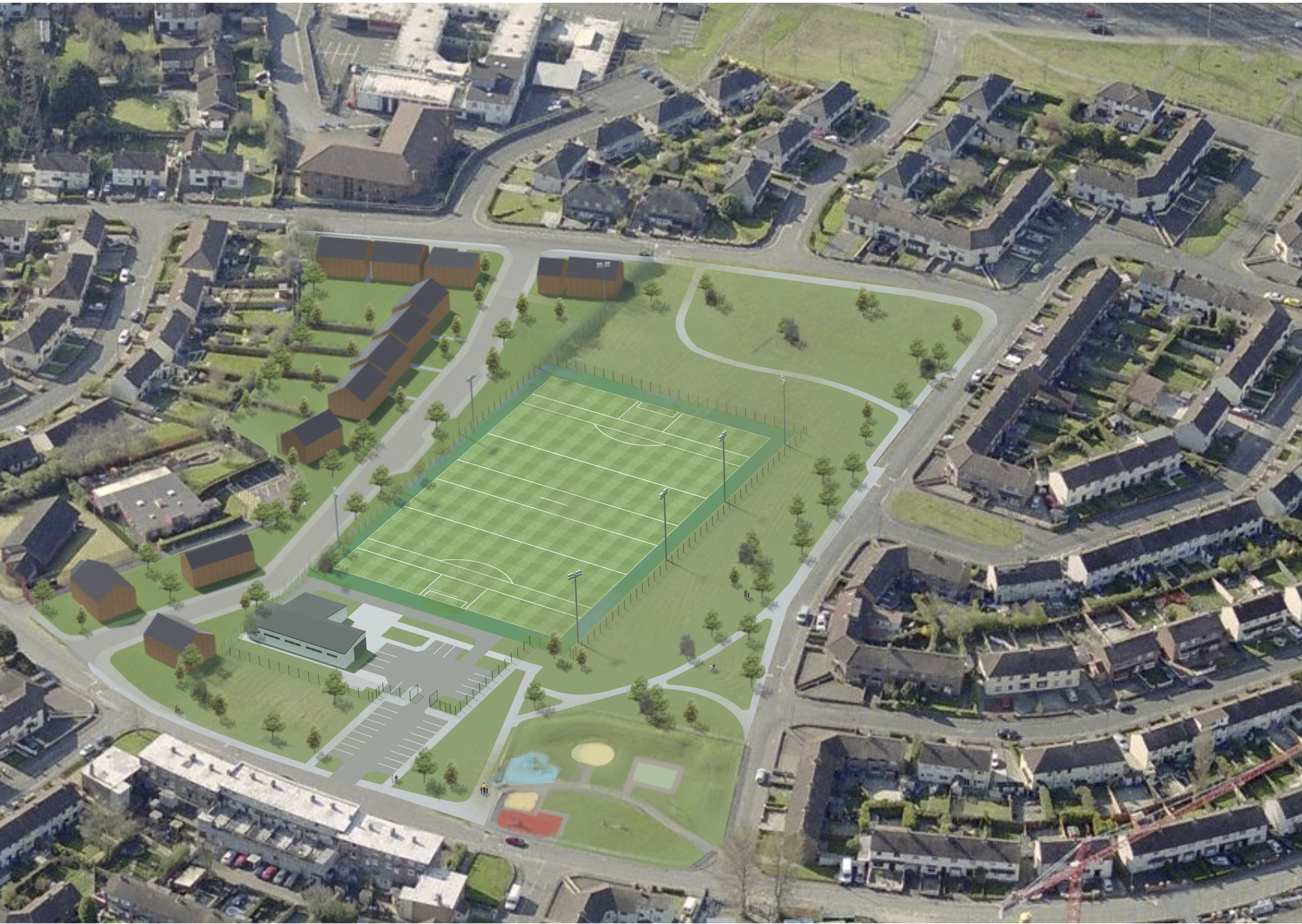 Glassmullin Approved Plans